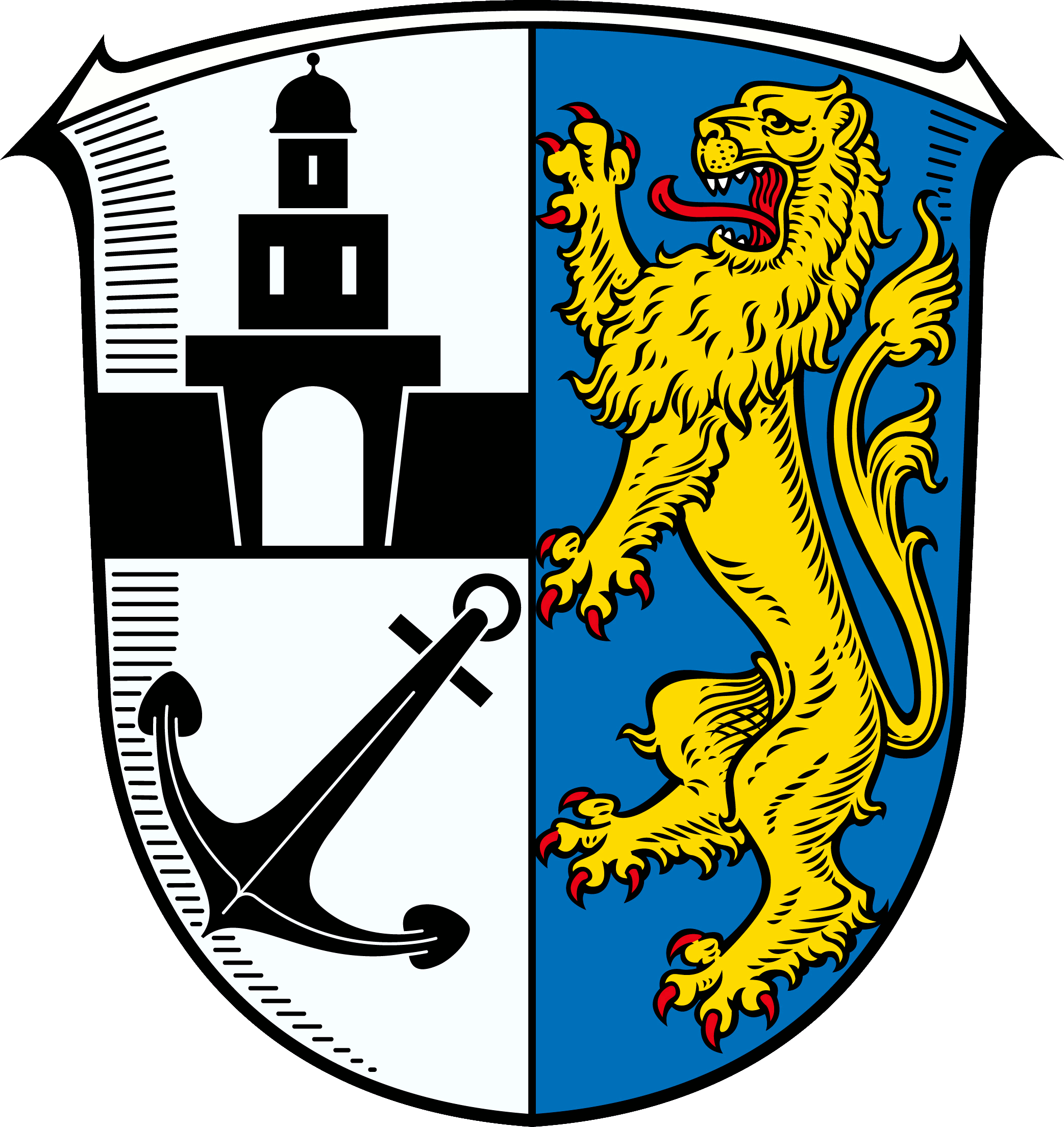 Coat of Arms of Ginsheim-Gustavsburg